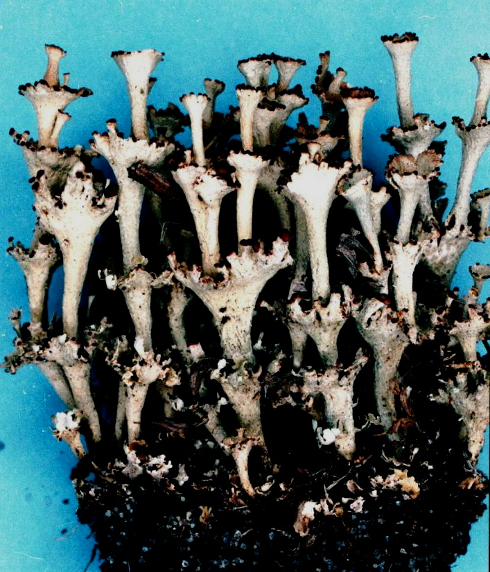 Cladonia rappii A. Evans, 1952 (photograph of a herbarium specimen) Growing in dryish, acid, sandy soil under Pinus virginiana on Route 313, about 2 miles S of Sharptown, Wicomico County, Maryland, USA; collected and identified by Elmer G. Worthley (No. L-73, 20 Jun 1984); specimen is now in the Lichen Herbarium of the New York Botanical Garden.